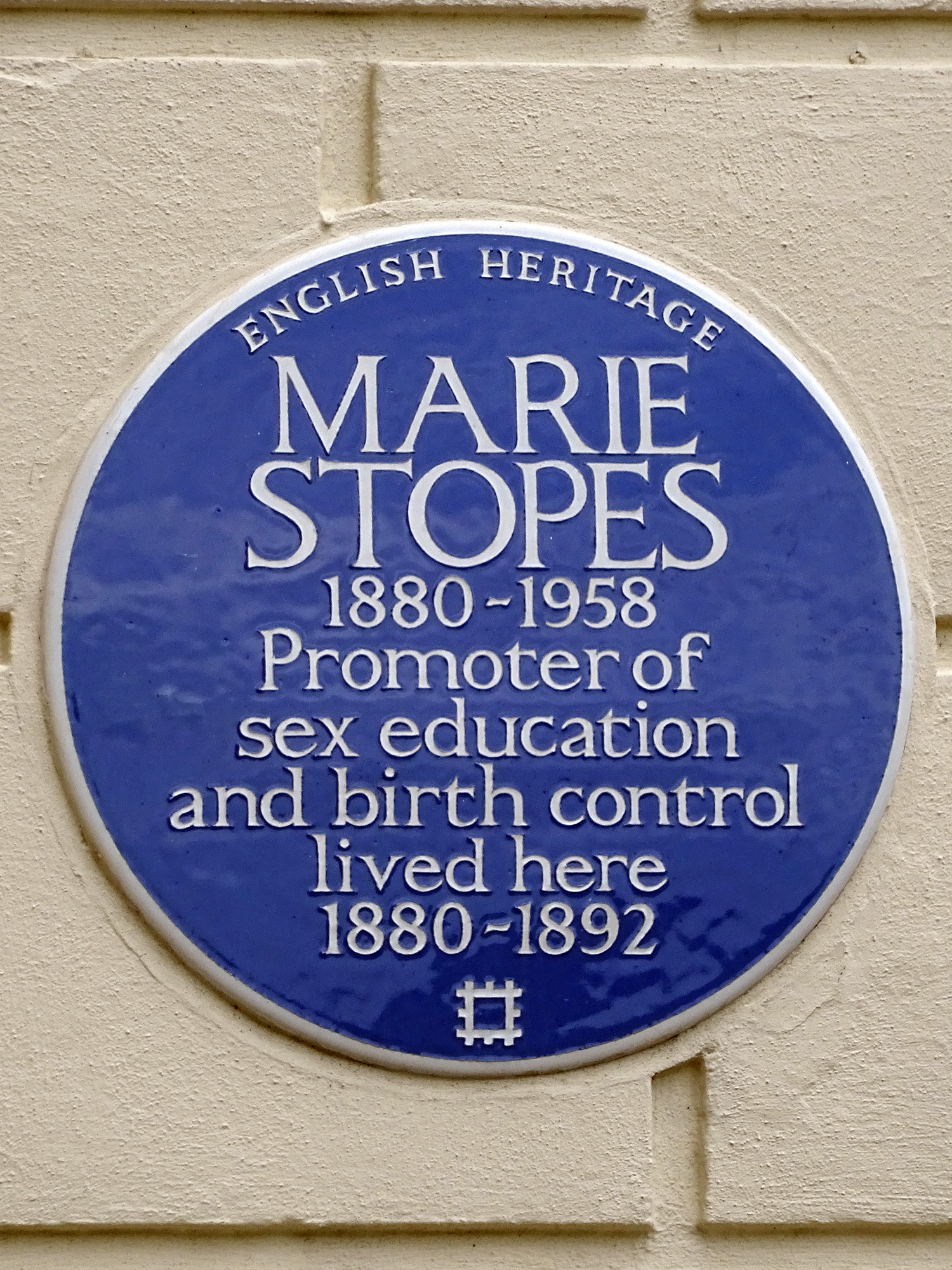 Blue plaque erected in 2010 by English Heritage at 28 Cintra Park, Upper Norwood, London SE19 2LH, London Borough of Bromley